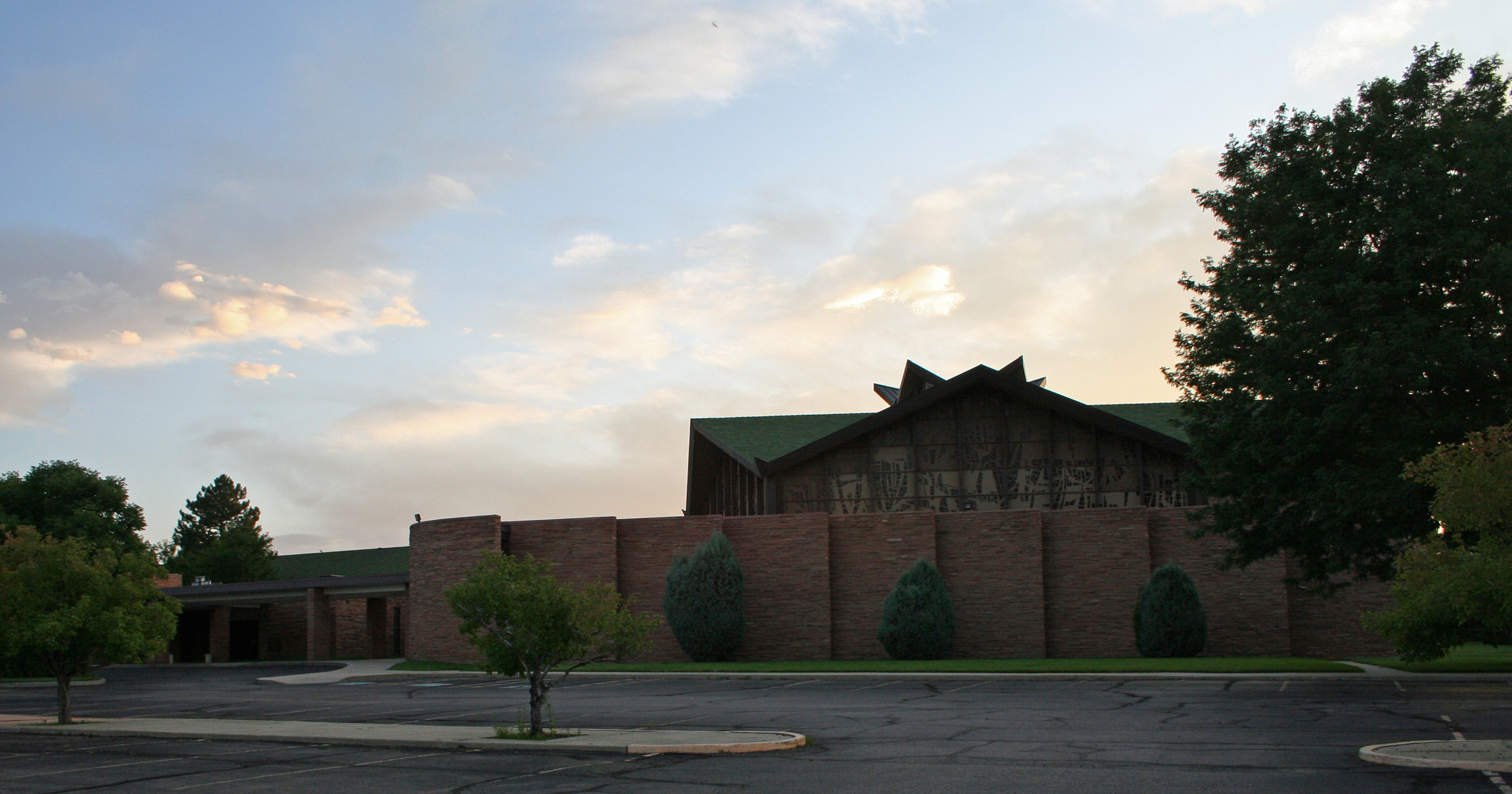 Temple Emanuel, located at 51 Grape Street in Denver, Colorado